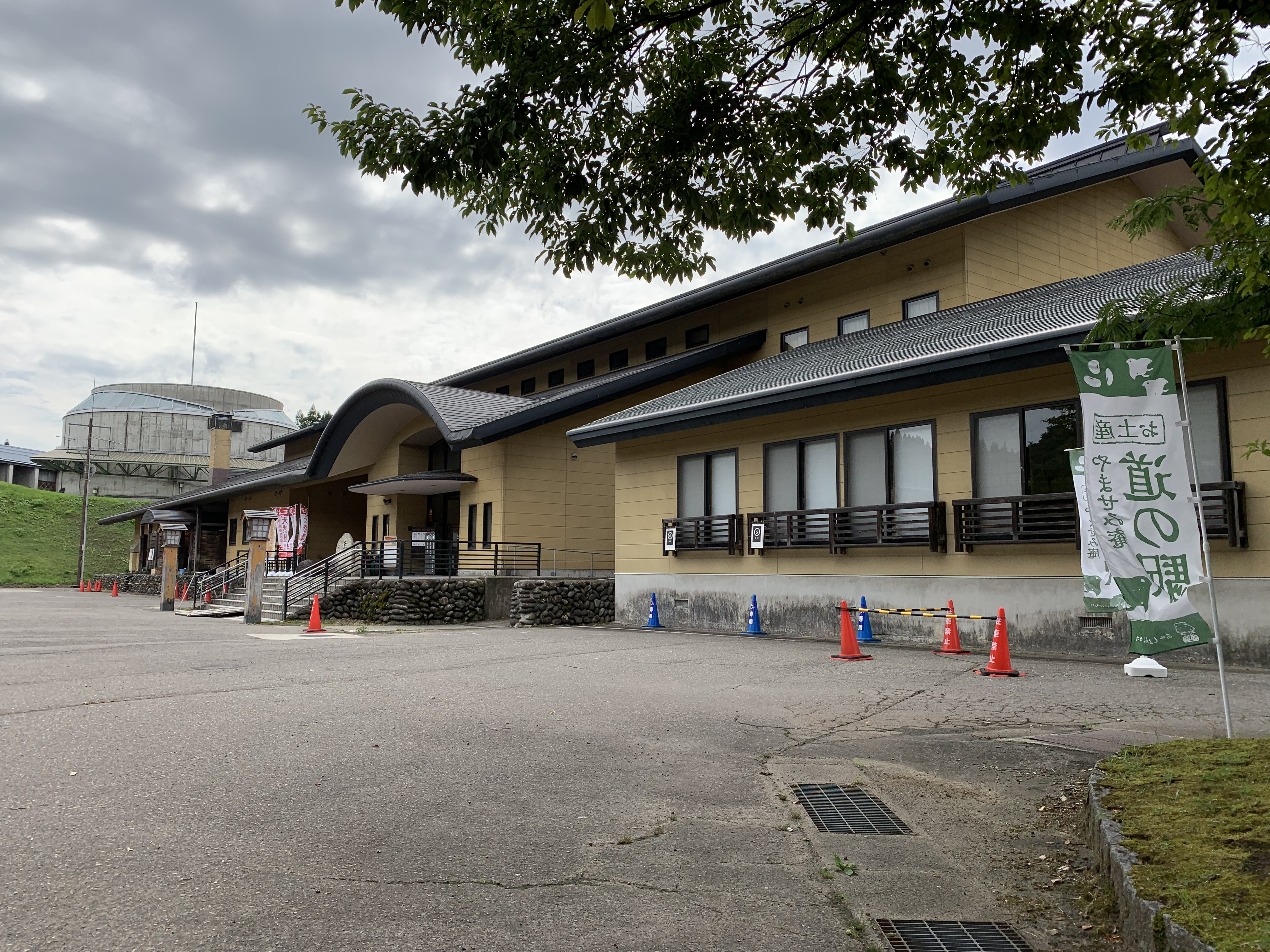 Jonnobi no sato Takayanagi, Michi no Eki (Roadside Station), Niigata, Japan. Took photo in September 2019.